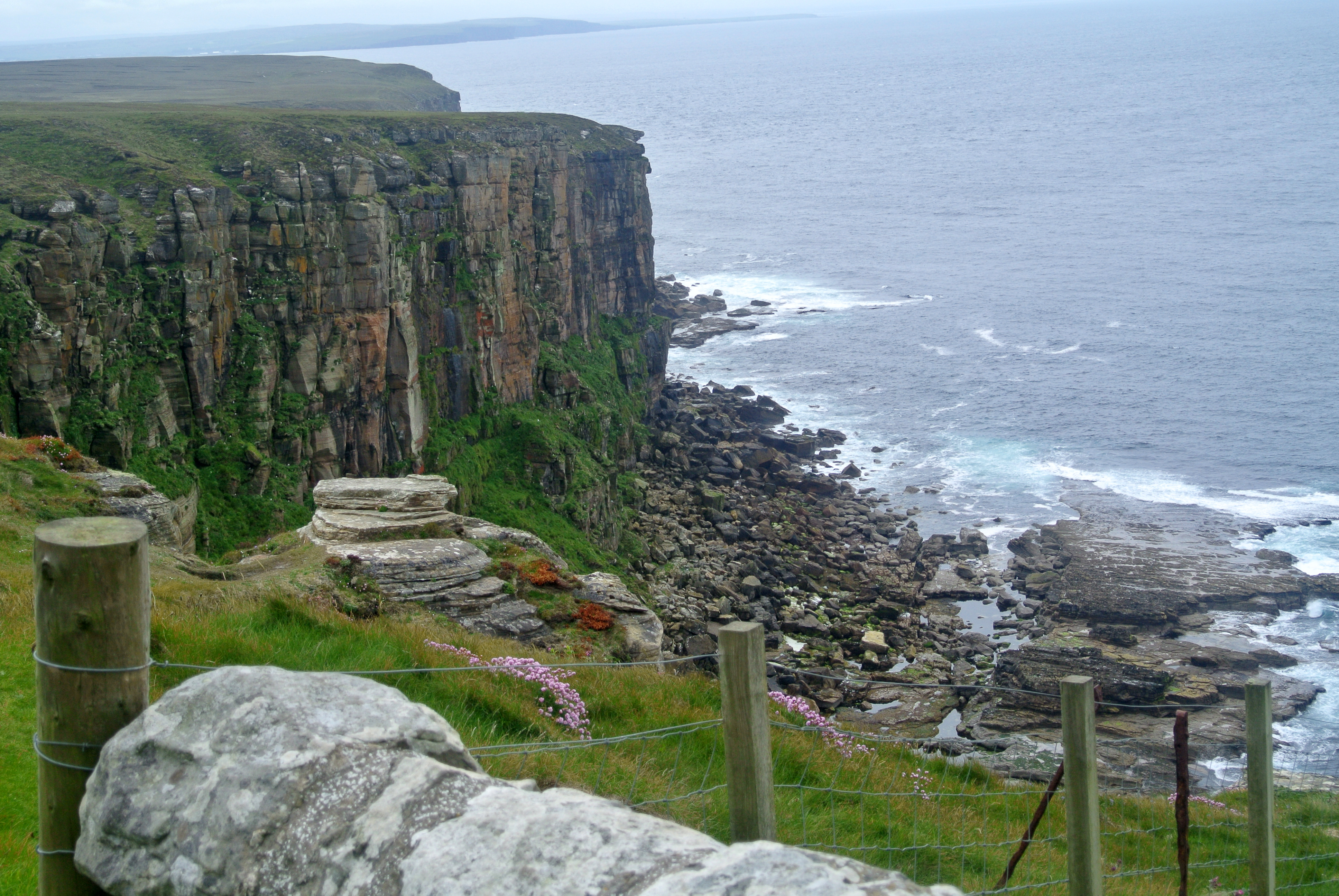 Dunnet Head view, Scotland. Rocks are the Old Red Sandstone.